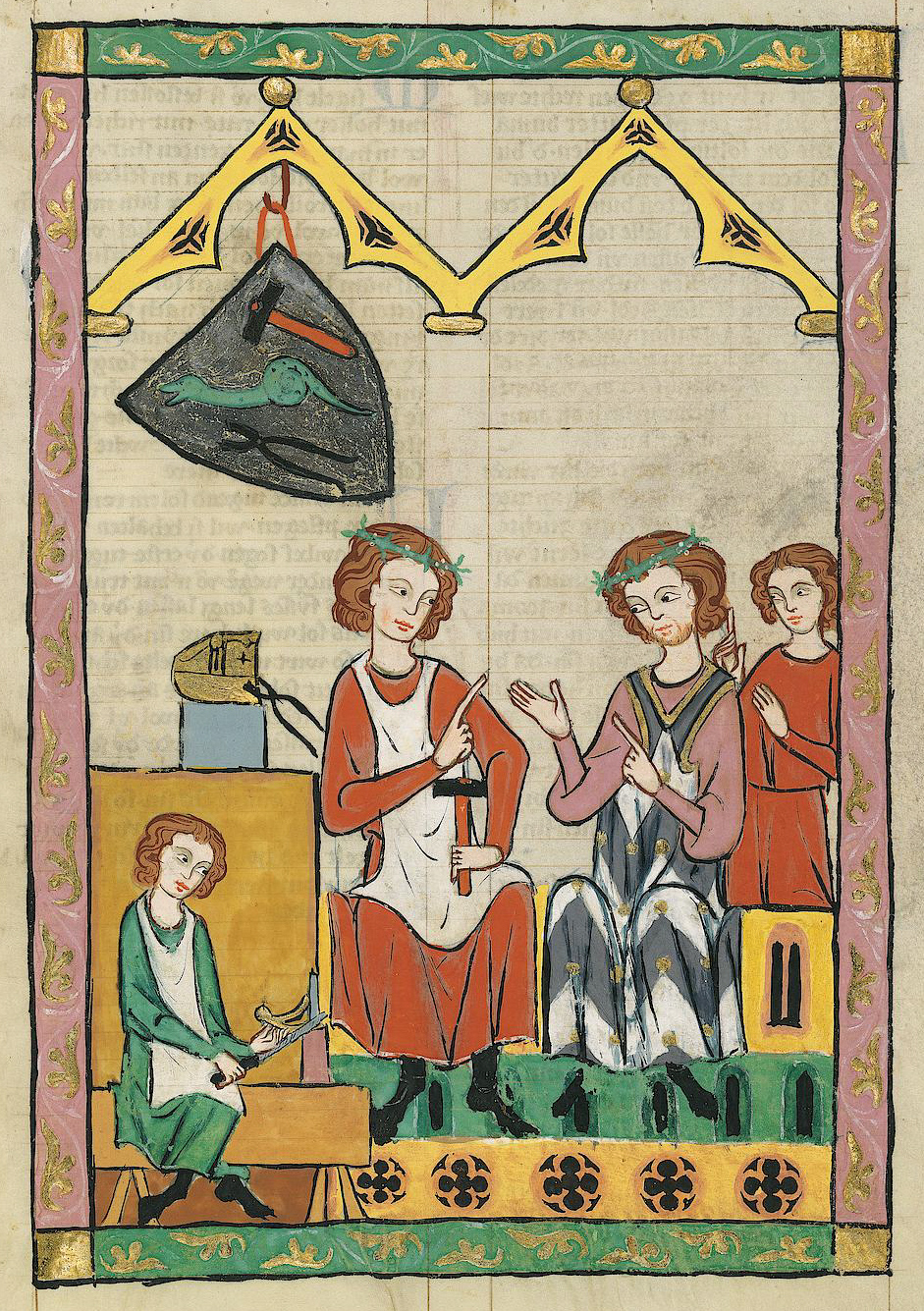 Codex Manesse, fol. 381r, Regenbogen. Regenbogen is shown in a discussion with another singer, maybe Frauenlob. The tools and coat of arms indicate that he was a smith, while only the small assistant to the left is actually working.